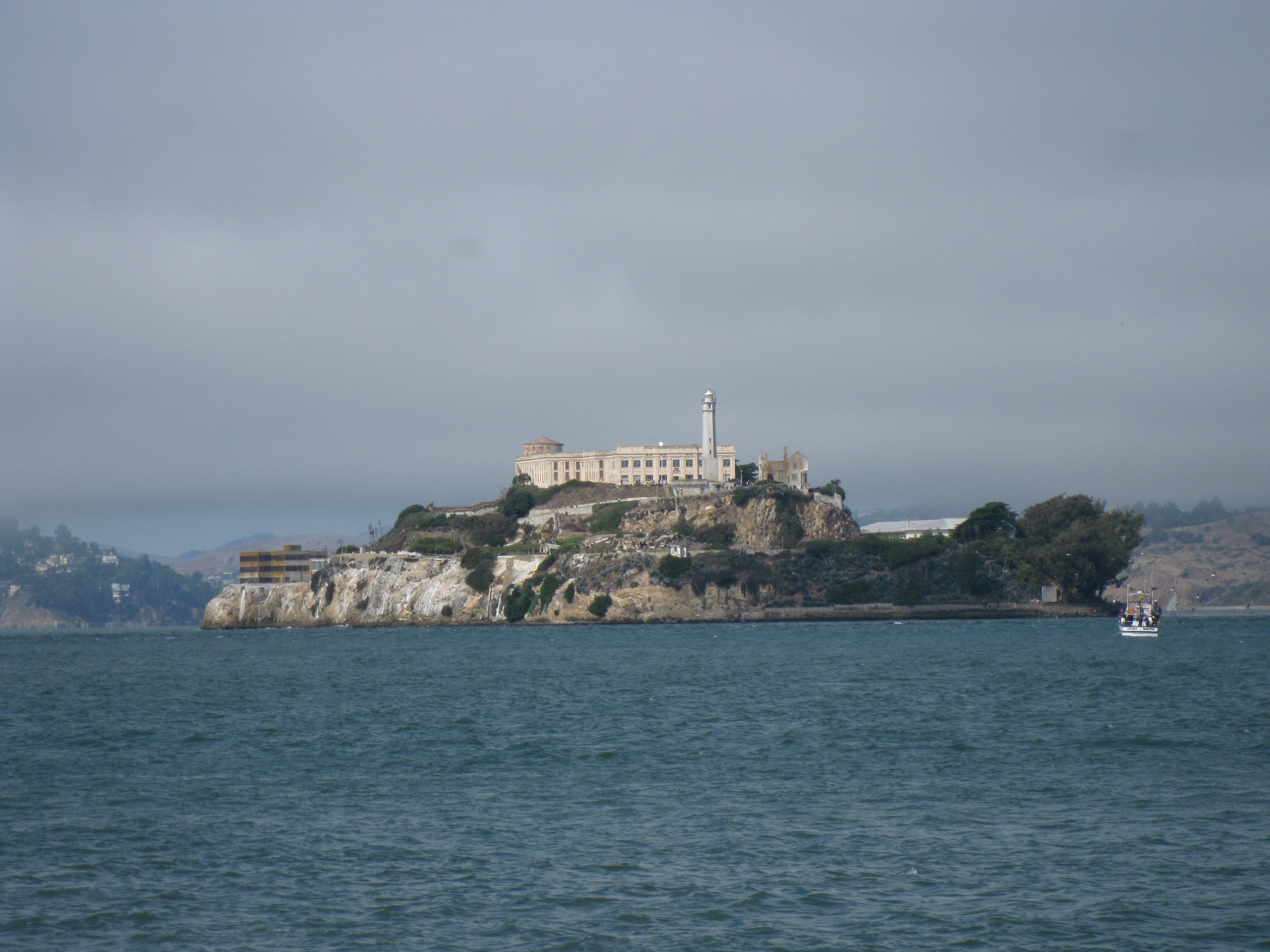 Views of Alcatraz Island from Fisherman's Wharf, San Francisco